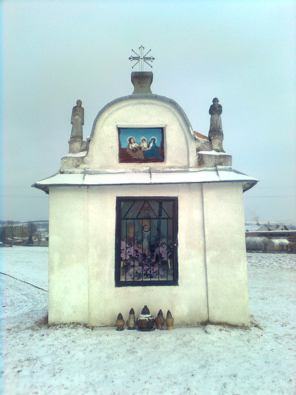 Wayside shrine of Mary (mother of Jesus) in Podegrodzie (Lesser Poland Voivodeship)